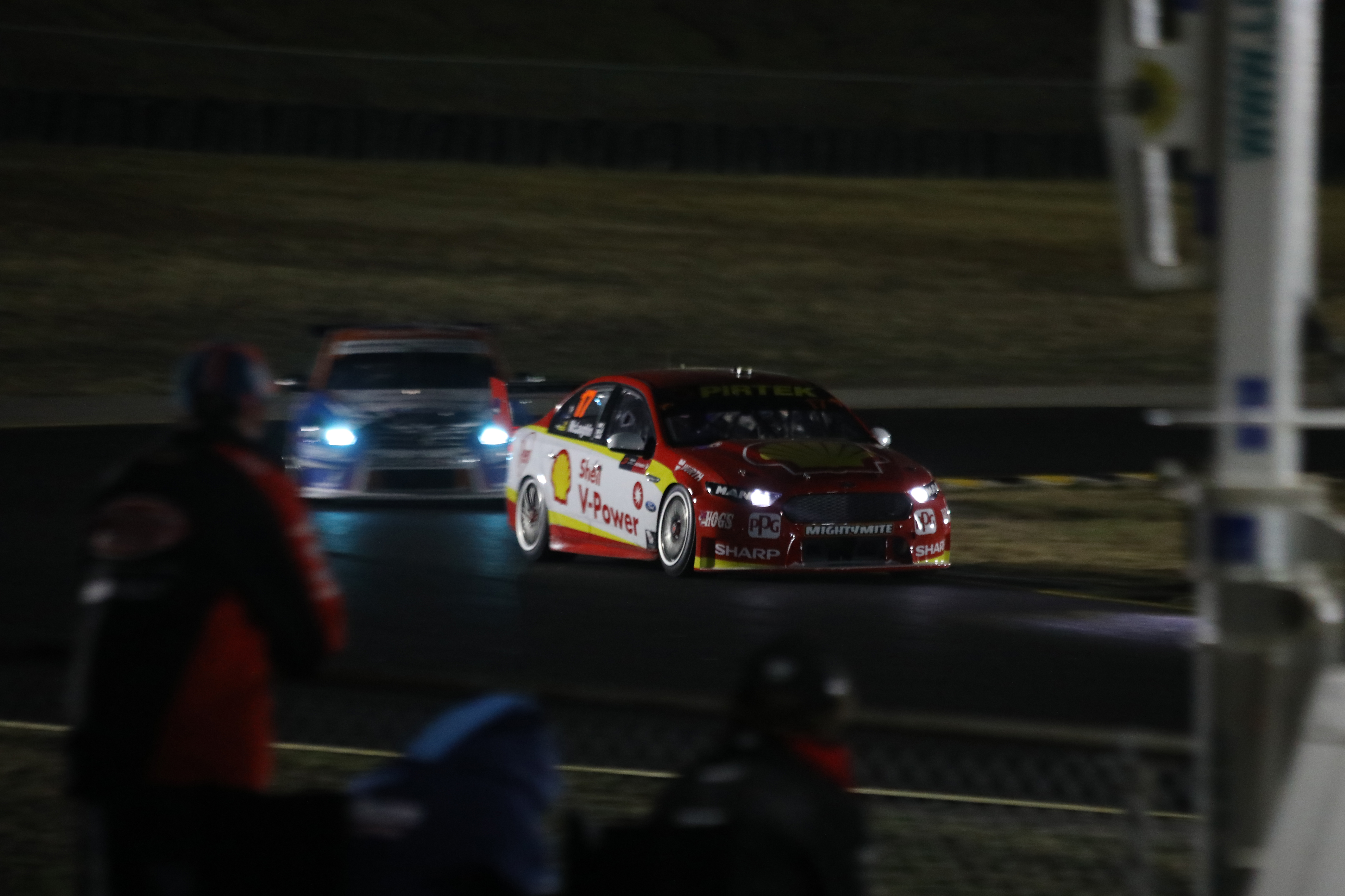 Scott McLaughlin leads Andre Heimgartner during the 2018 Sydney SuperNight 300.